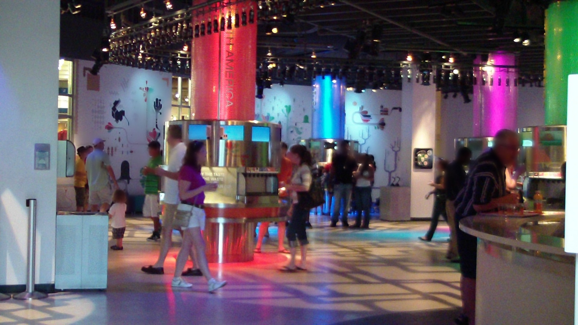 This is the upper floor area of the World of Coca-Cola where you can taste the various drinks by country.